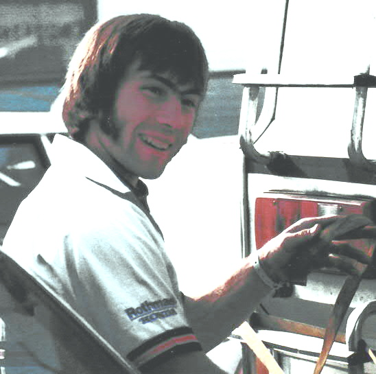 Motorcycle road racer Ron Haslam in 1985 at the Bol d'Or races in the South of France